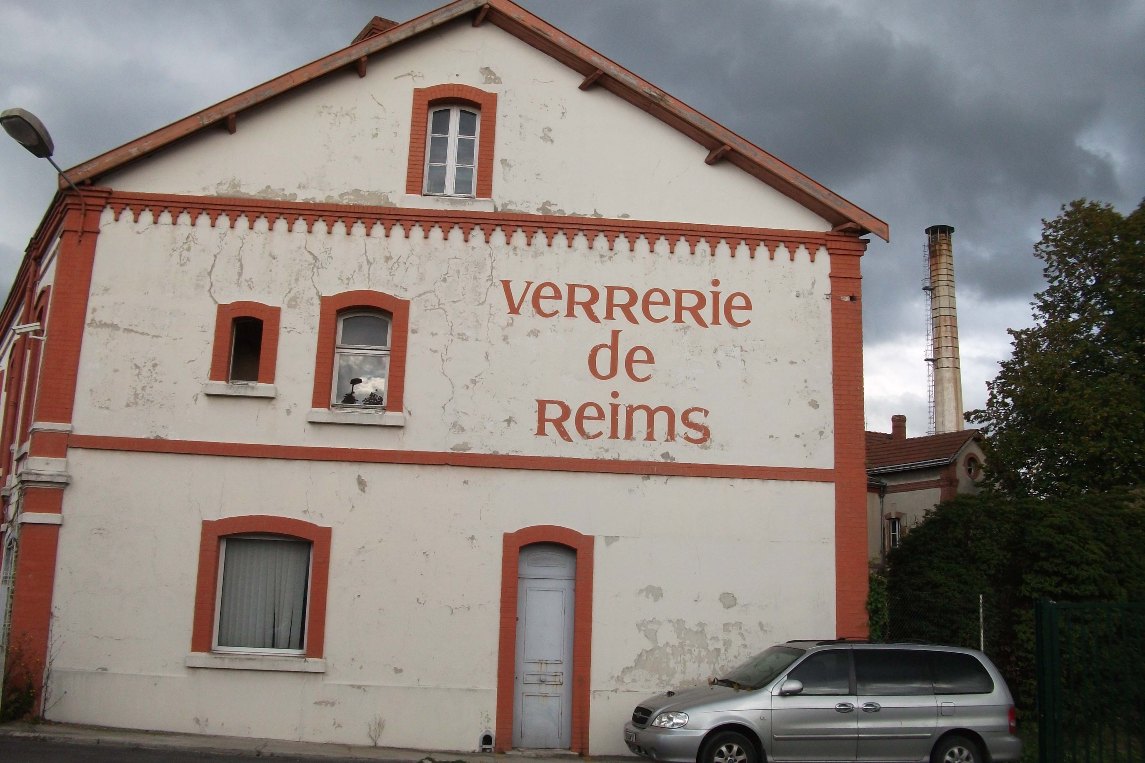 quartier verrerie, la verrerie du début du XIXe siècle.